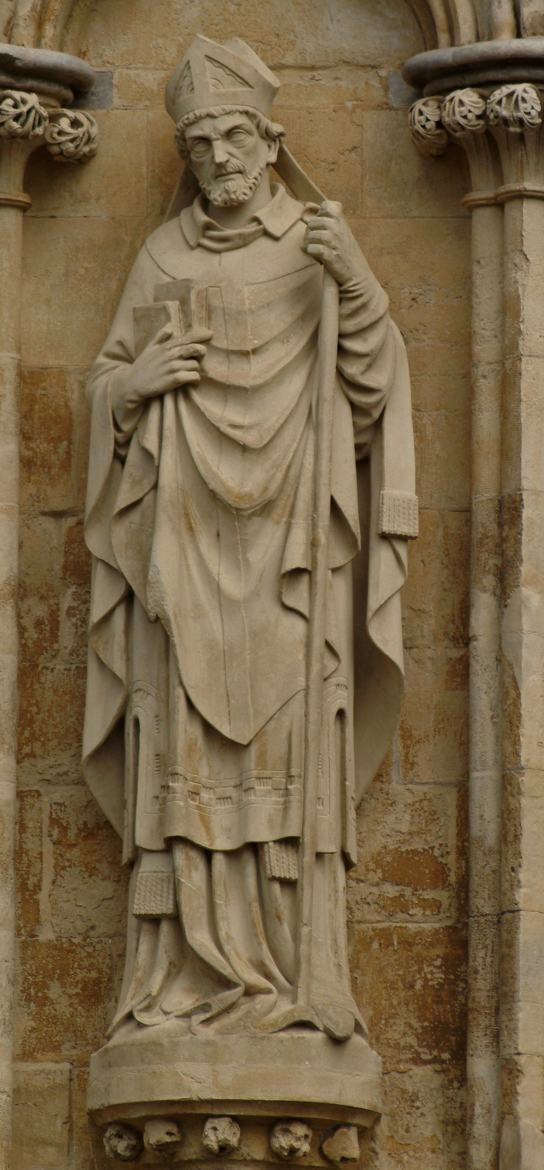 Statue of St Osmund on the West Front of Salisbury Cathedral, UK.